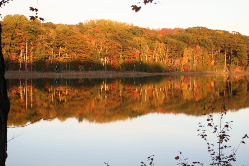 Reflection in the Kettle lake